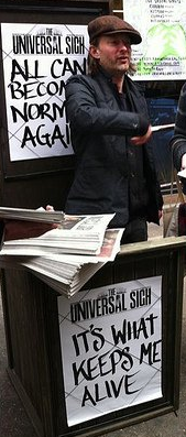 Radiohead singer Thom Yorke meets fans in London outside the Rough Trade record shop to distribute copies of Radiohead's Universal Sigh newspaper.